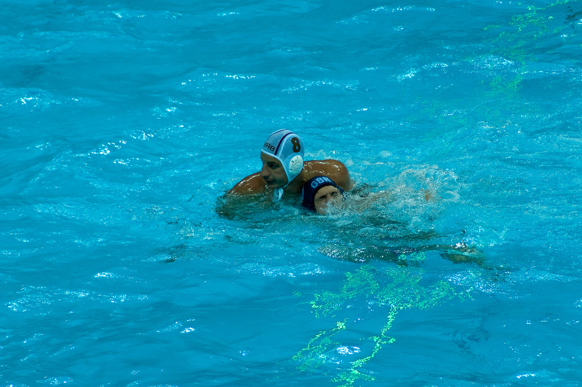 Drowning is fine apparently GB v Serbia